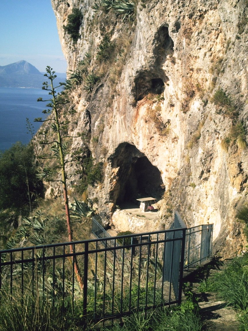 The Angel Grotto of Maratea.